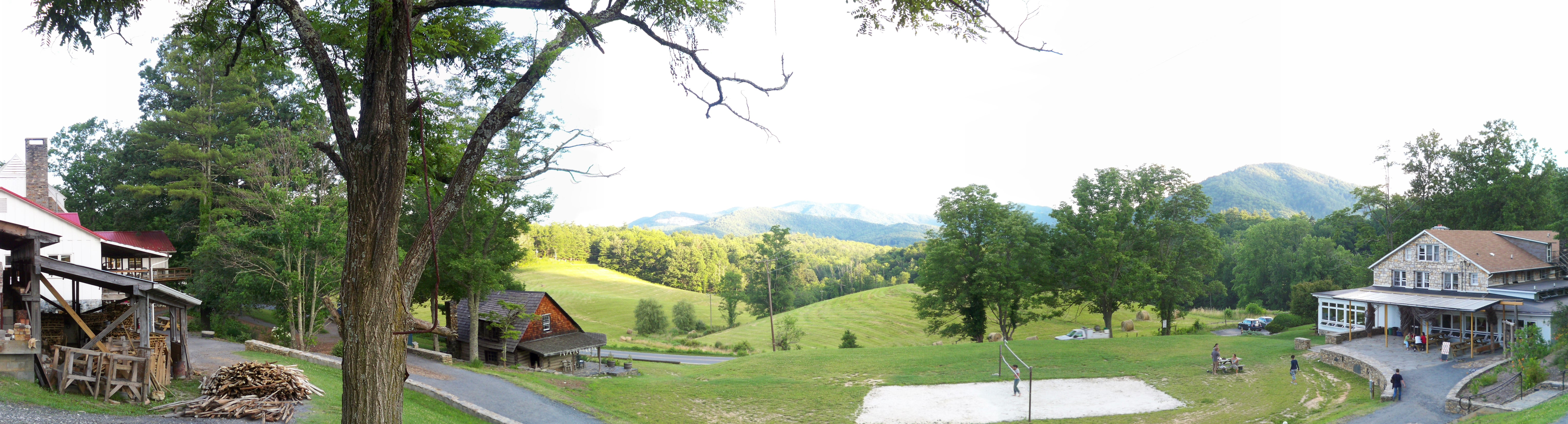 Camera-spliced panorama image I took while reclining on the central hillside of the campus.